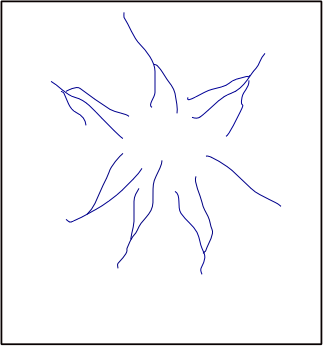 Radial drainage pattern Free for all use Author:Eurico Zimbres